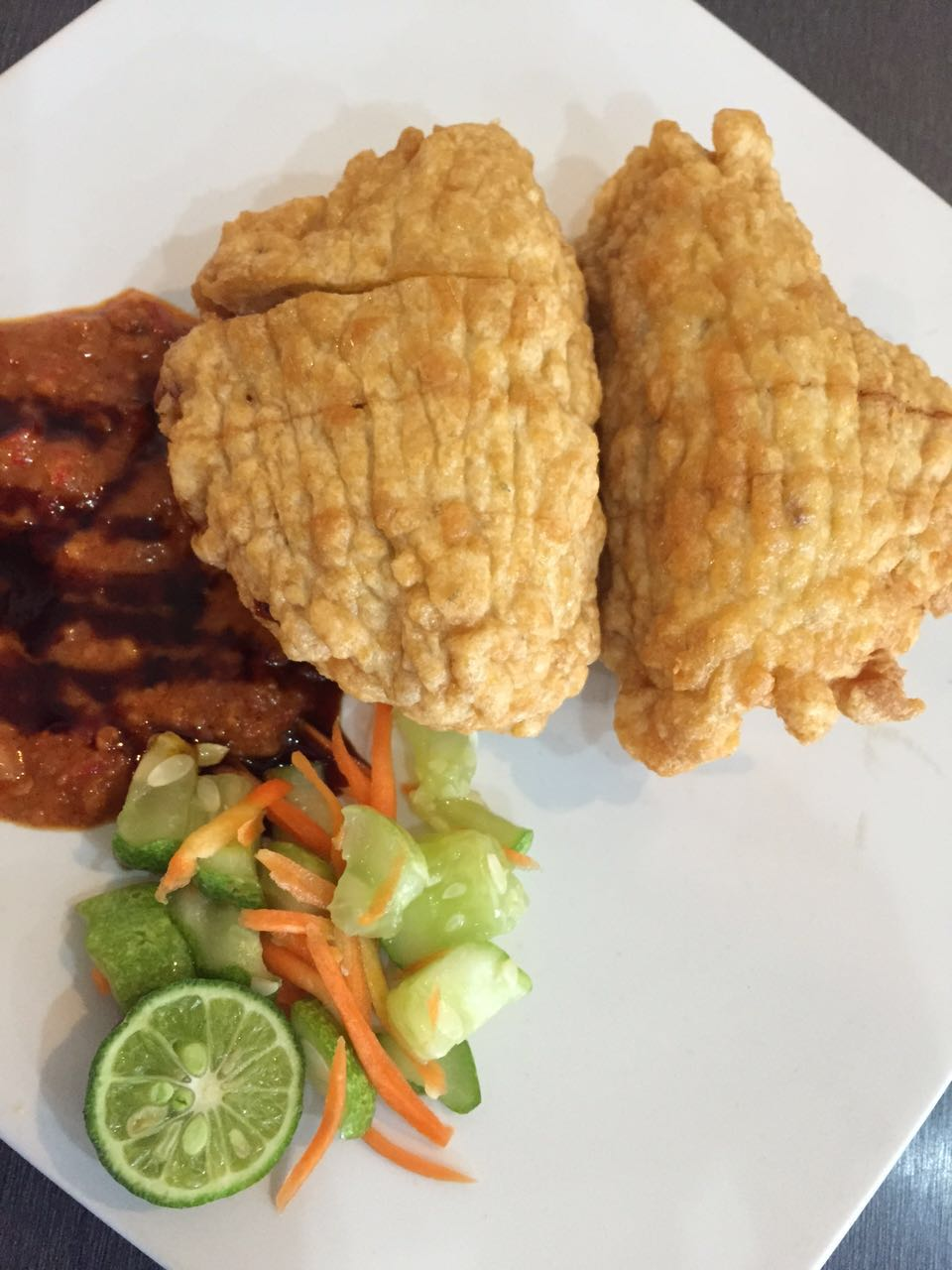 A portion of batagor in a cafe in Jakarta